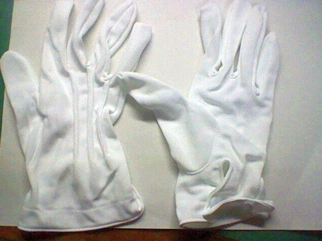 Dress glove and gloves for formal dresses